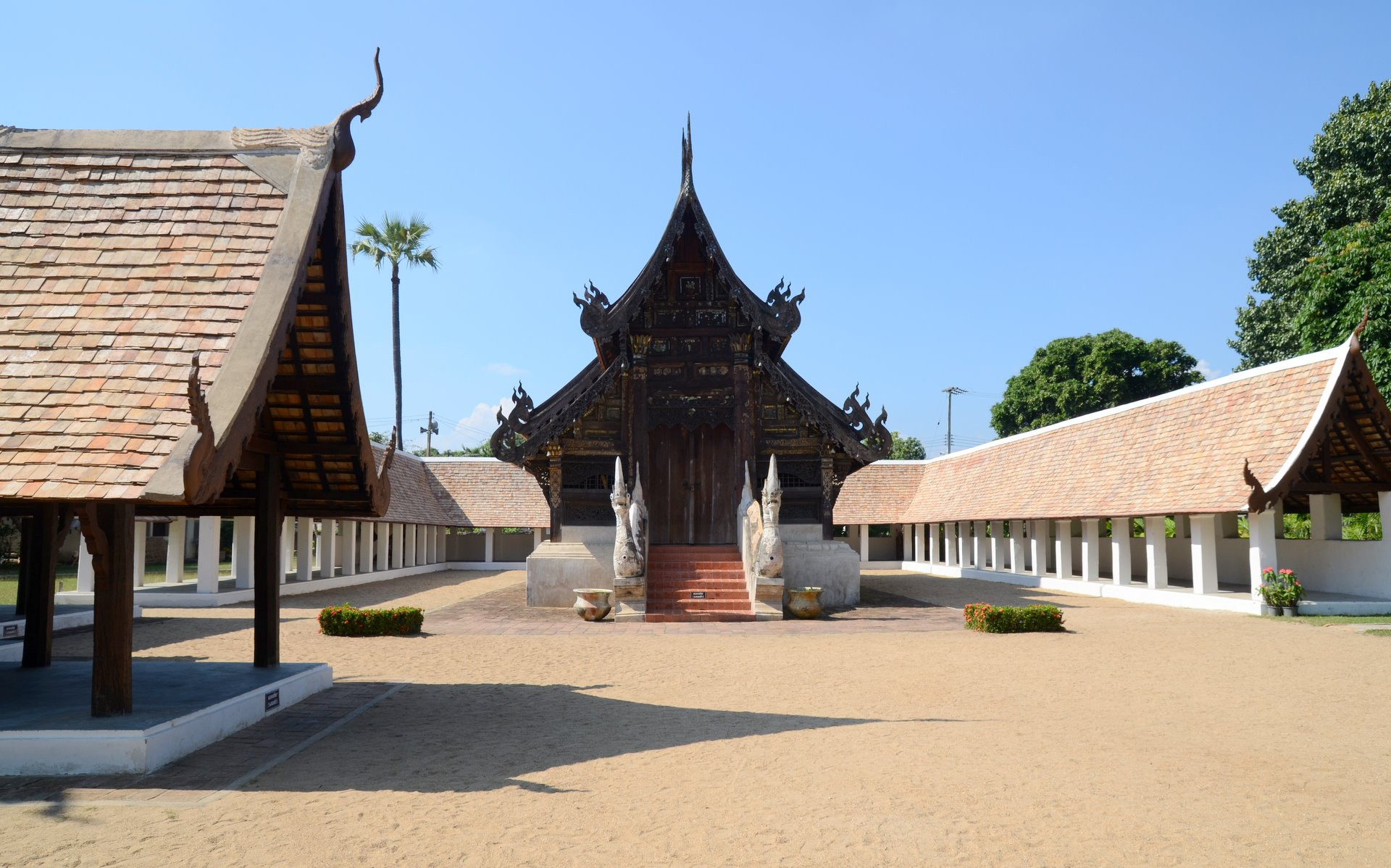 Wat Ton Kwaen in Amphoe Hang Dong. The last Wat in Thailand to have been built entirely in the Lanna style (1858 CE).